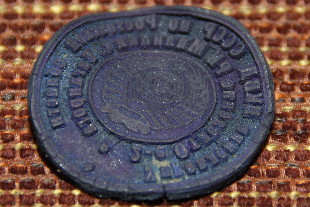 “Fake NKVD seal in the Central Museum of the Russian Interior Ministry”. A fake NKVD (Soviet security police) seal which was found in the Abwehr concentration camp in the Kaliningrad Region and handed over to the Central Museum of the Russian Interior Ministry.